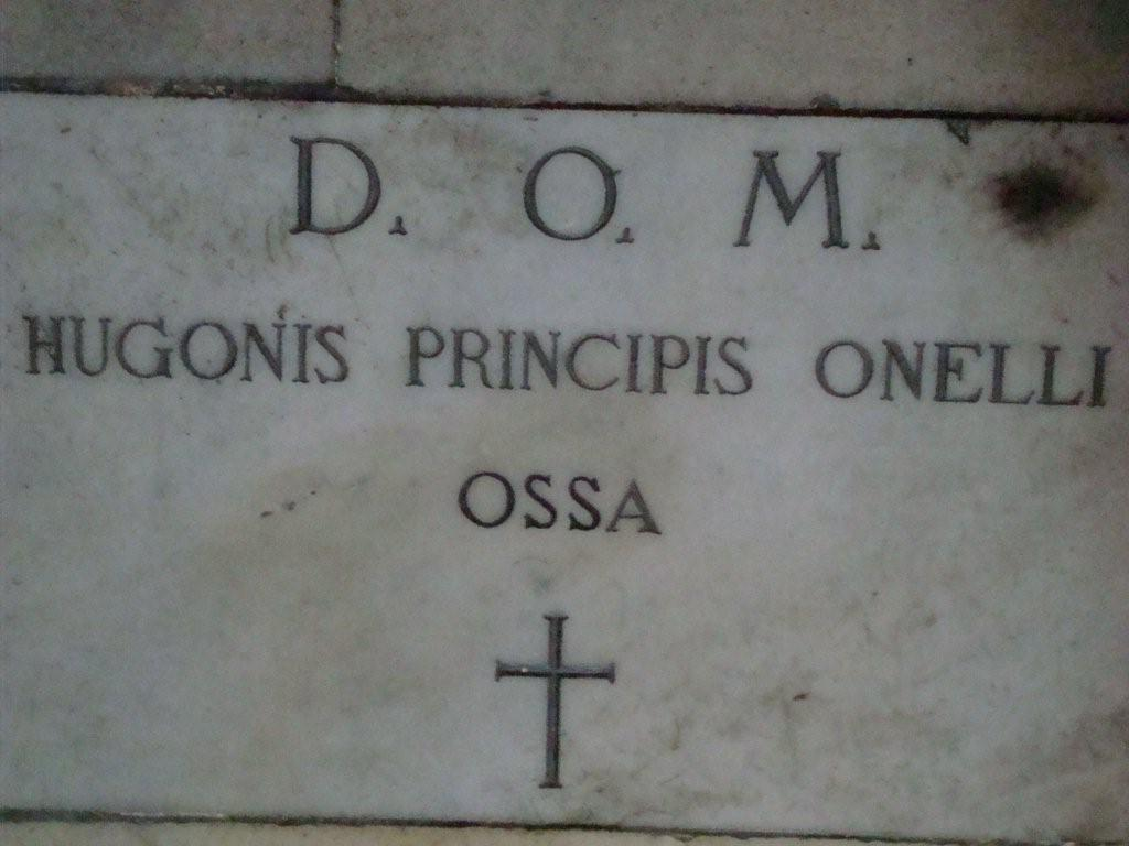 Inscription on the tomb of Hugh O'Neill